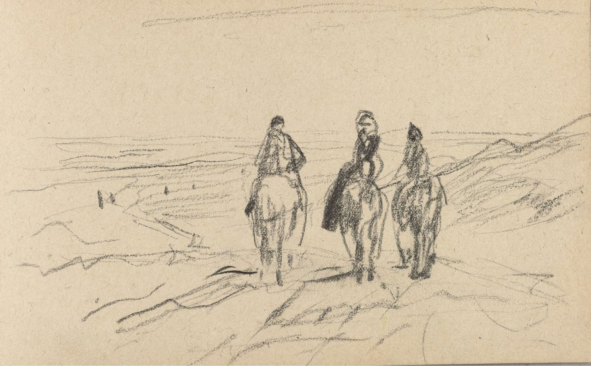 Ochtendrit langs het Scheveningense strand, voorstudie